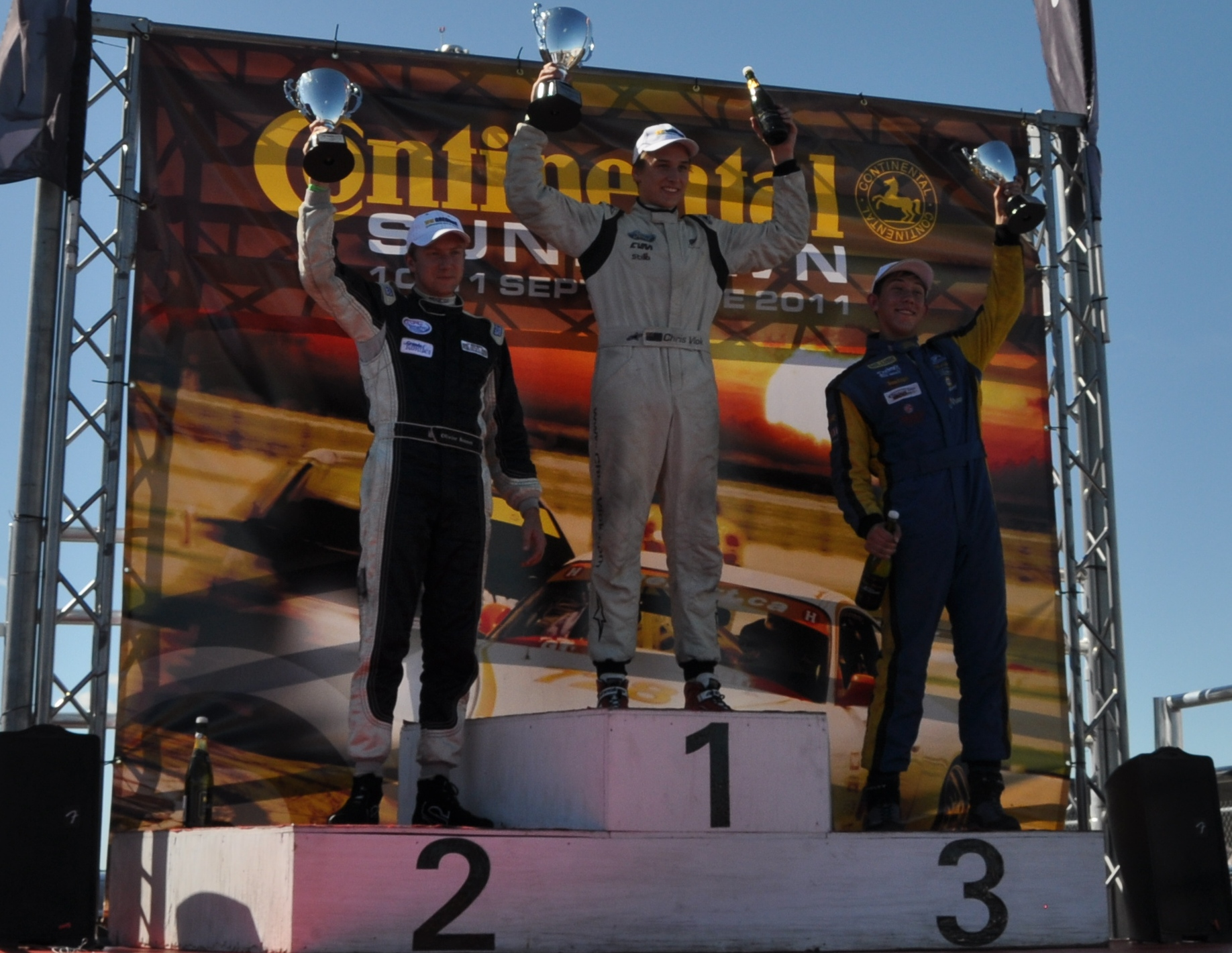 Chris Vlok win ICAR Quebec Formula Ford